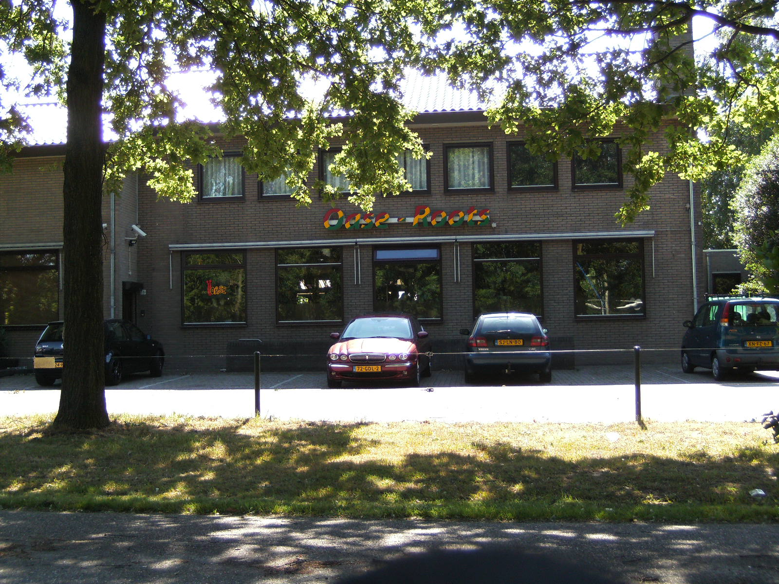 The Koffieshop "Oase-Roots" in Venlo (Netherlands) - view from the Bevrijdingsweg